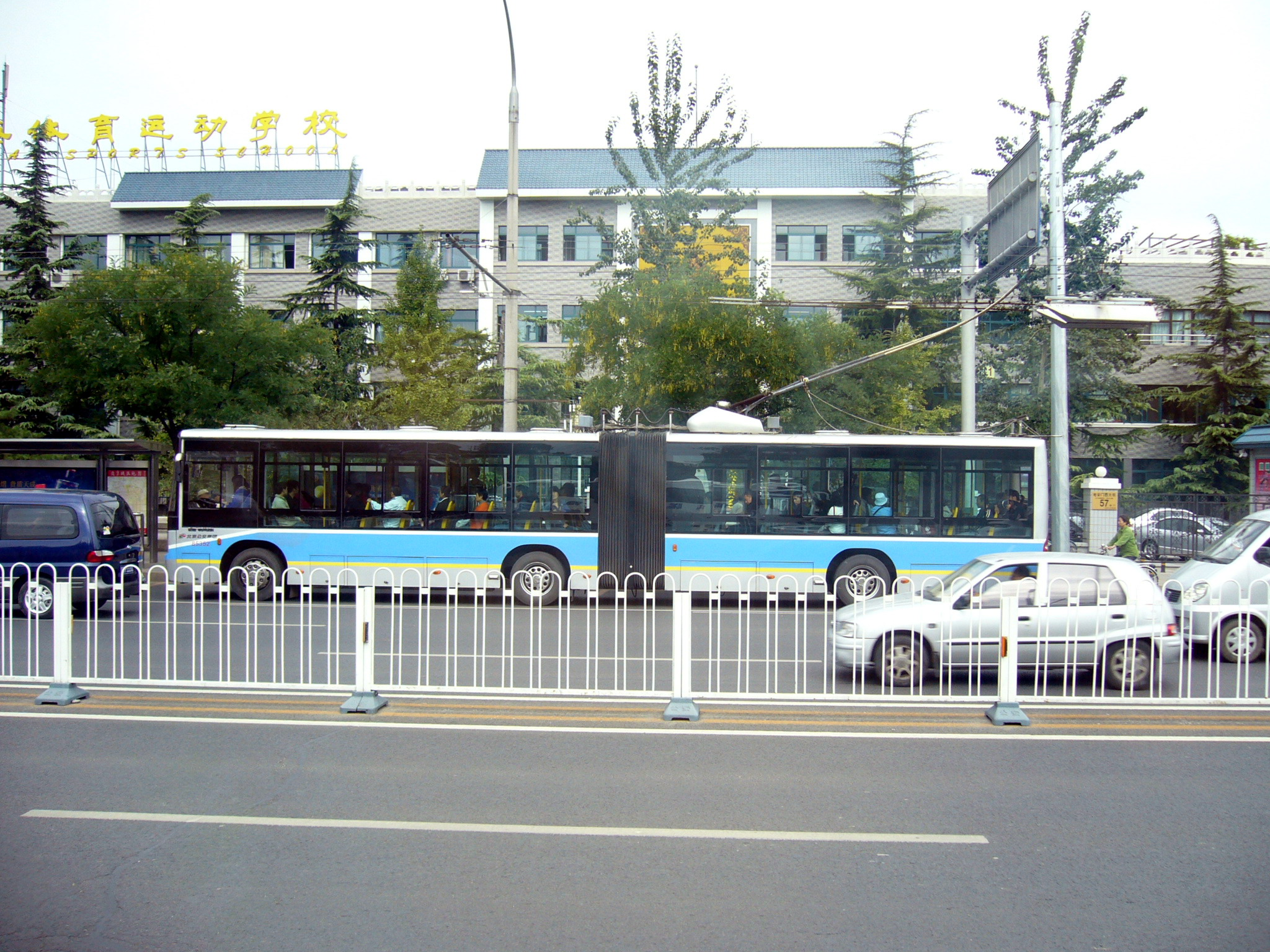 Traffic - Beijing